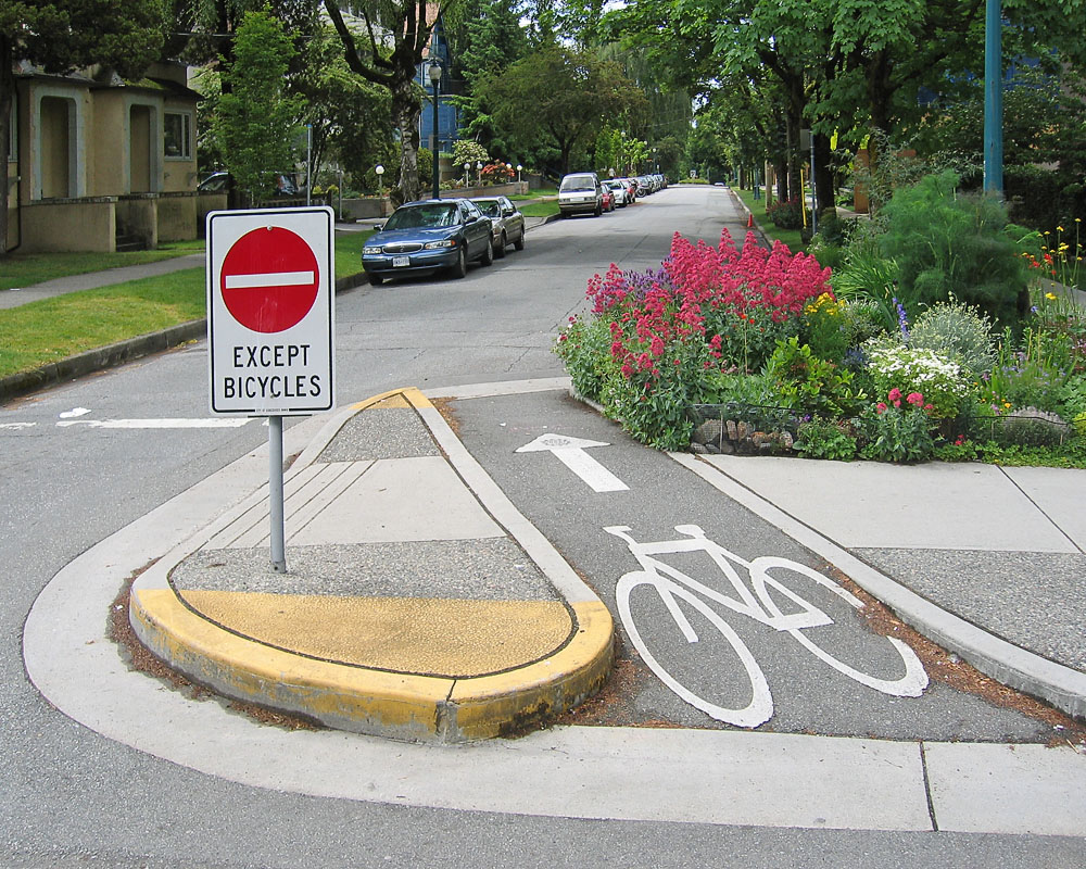 Directional closure violation with bicycle access (likely located in British Columbia, Canada)